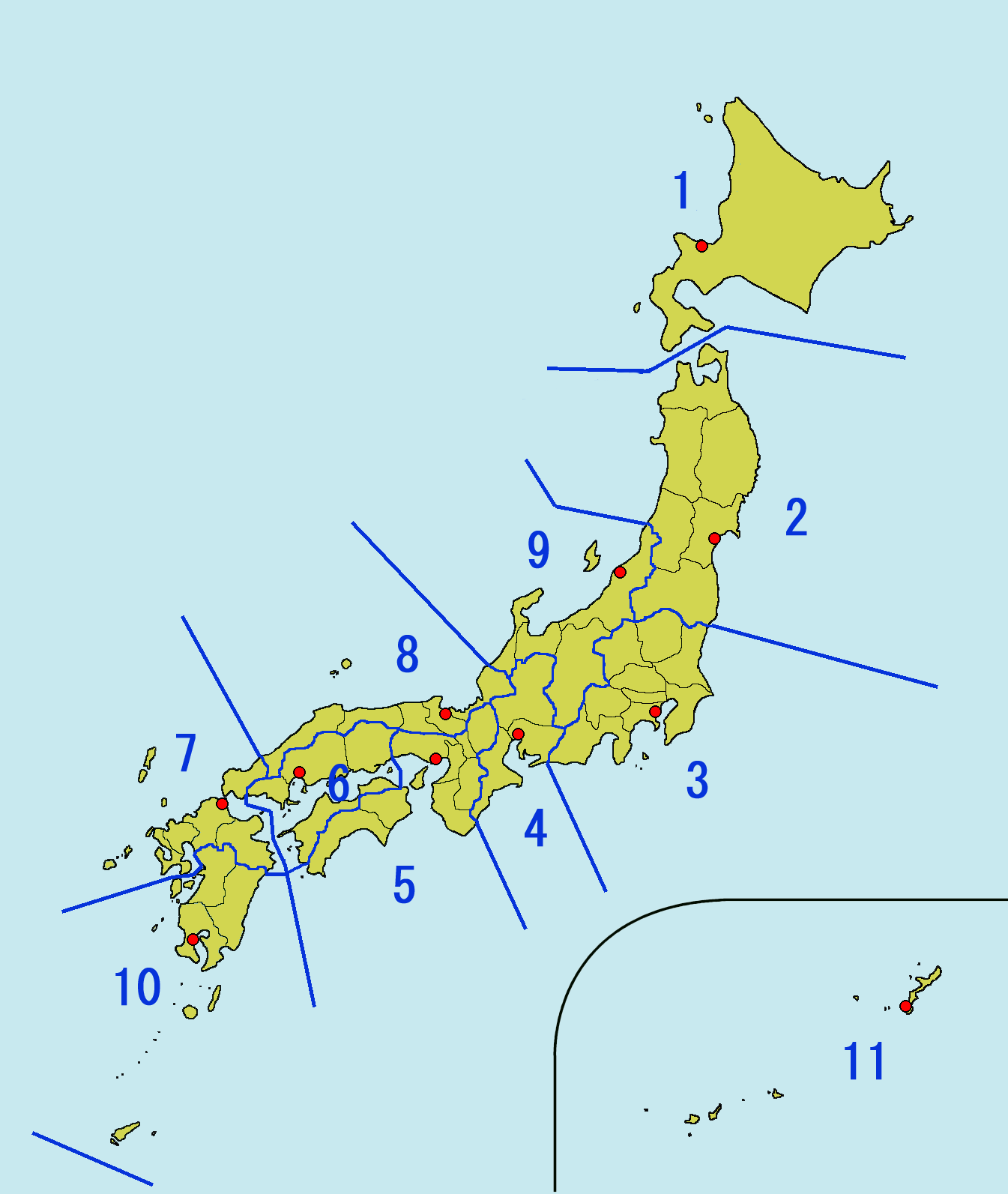 Japan Coast Guard region